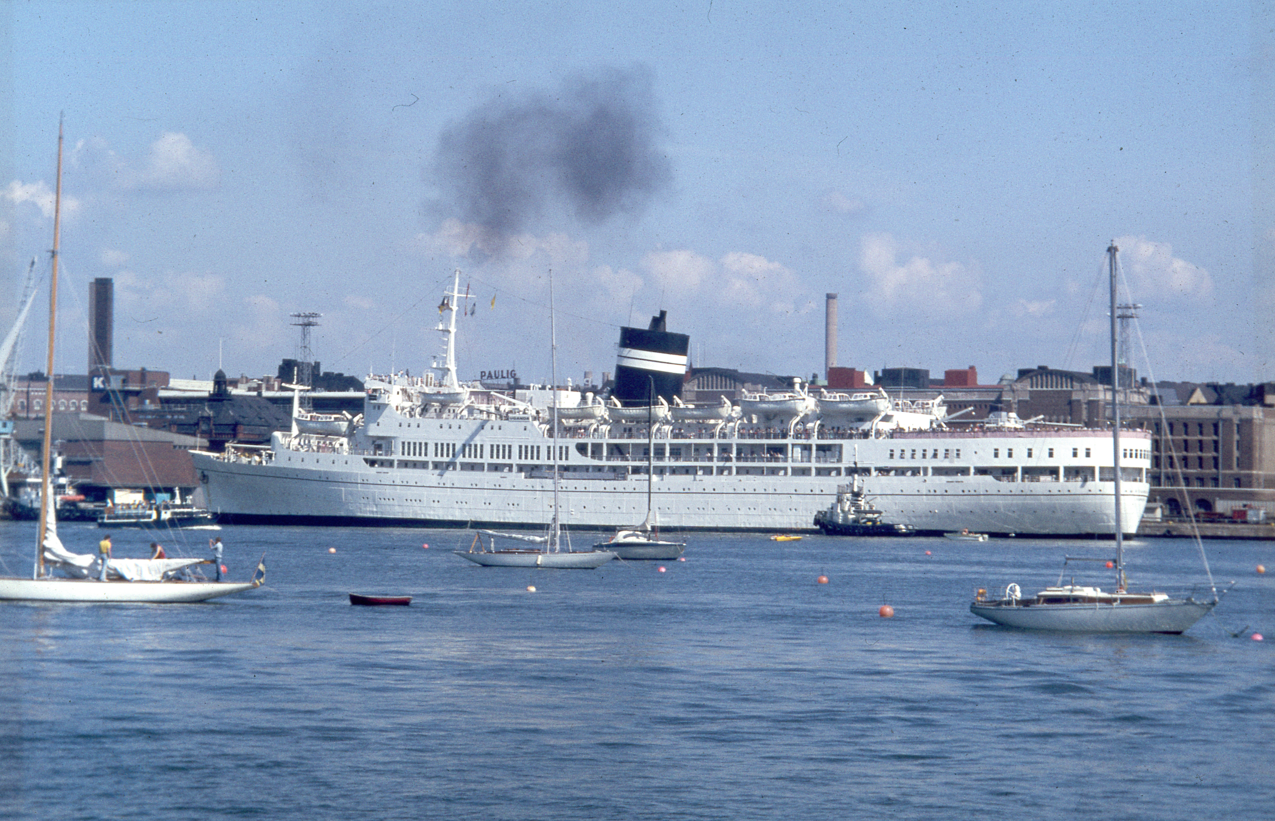 SS Uganda as a cruise liner in Helsinki South Harbour in the early 1980's